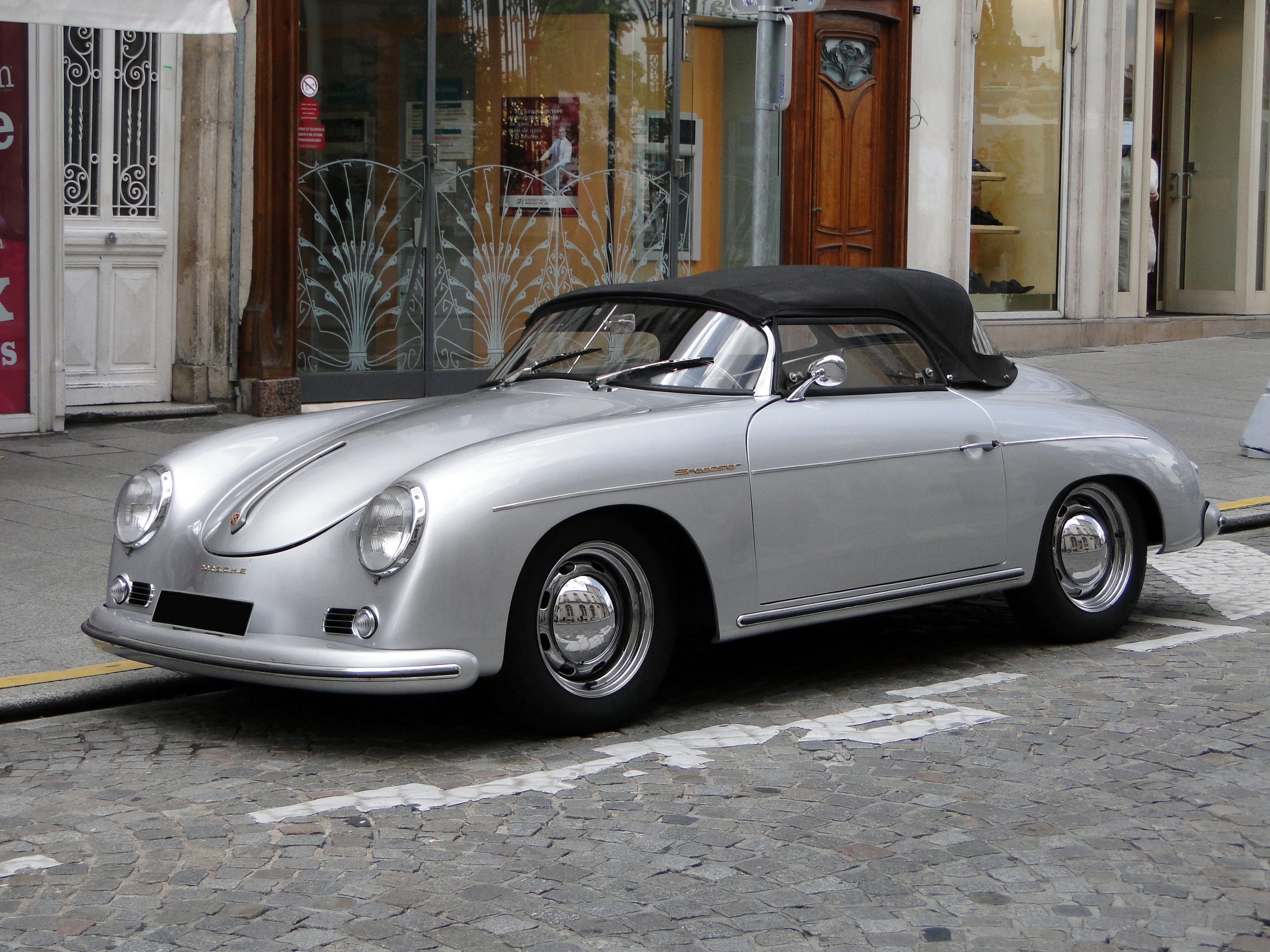 Porsche 356 replica in Nancy, France.